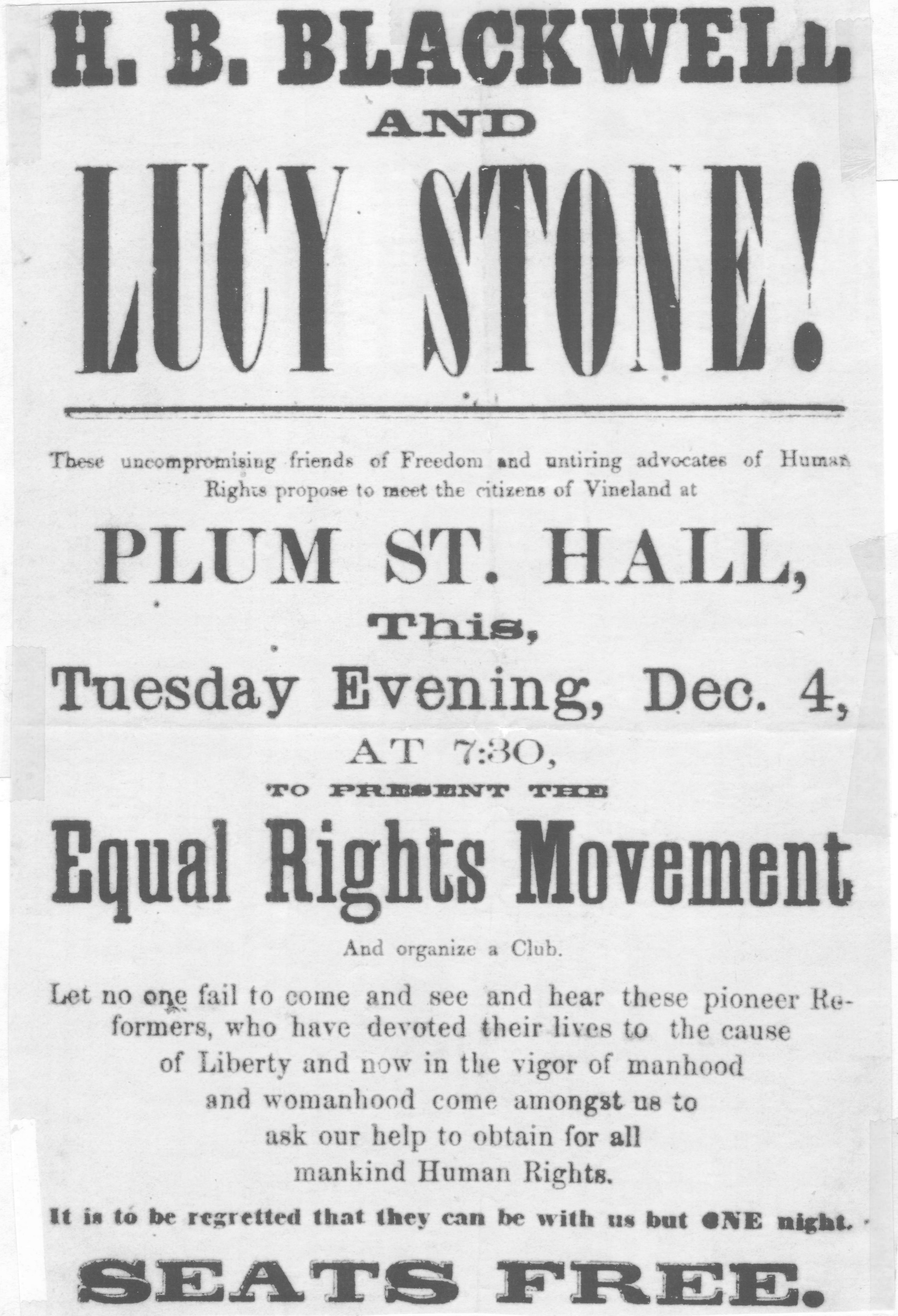 Broadside announcement inviting readers to see Henry Browne Blackwell and his more famous wife Lucy Stone speak at Plum Street Hall in Vineland, New Jersey, on the topic of equal rights, and to form a local club. The meeting's date was December 4, 1866.